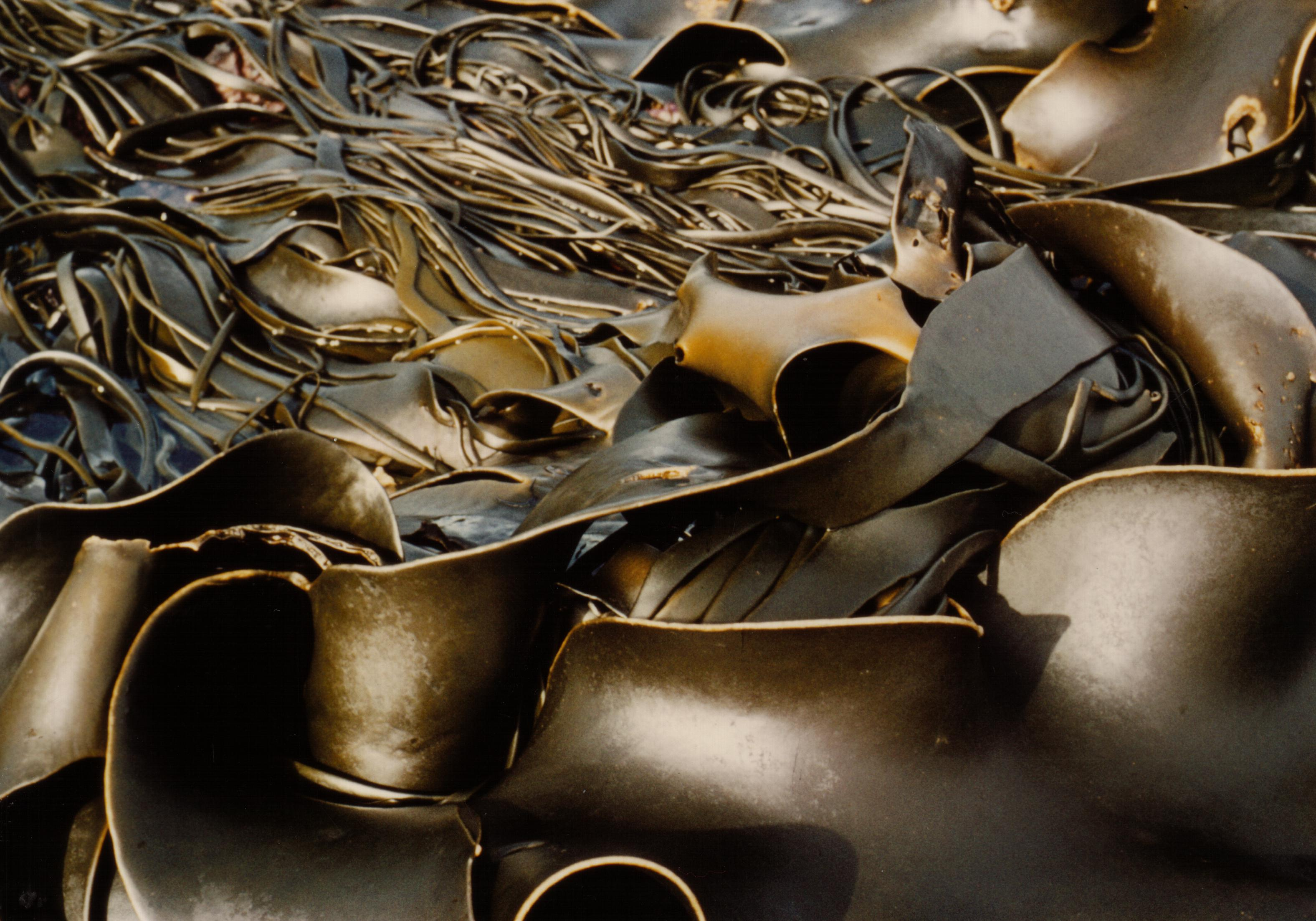 Durvillea kelp(Durvillea antartica ) coastal belt of floating straps